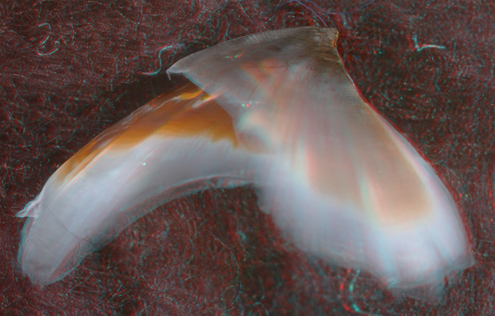 Lower beak of female Argonauta argo (63 mm ML; 4.7 mm HL; 10.3 mm CL). Extracted from intact specimen found in stomach of Alepisaurus ferox from central North Pacific (34°N 140°W / 34°N 140°W; collector Anela Choy).